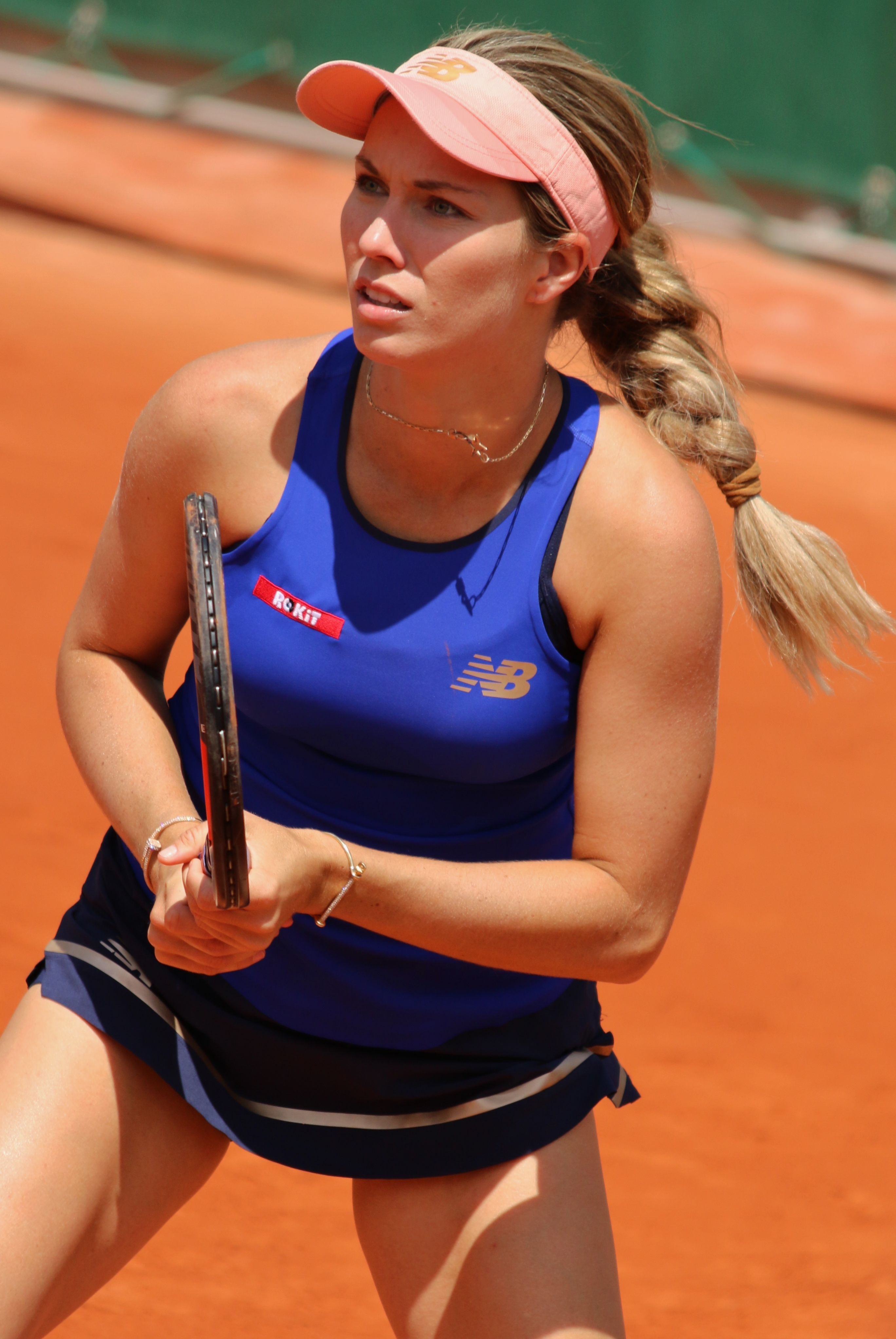 Collins RG19 (14)